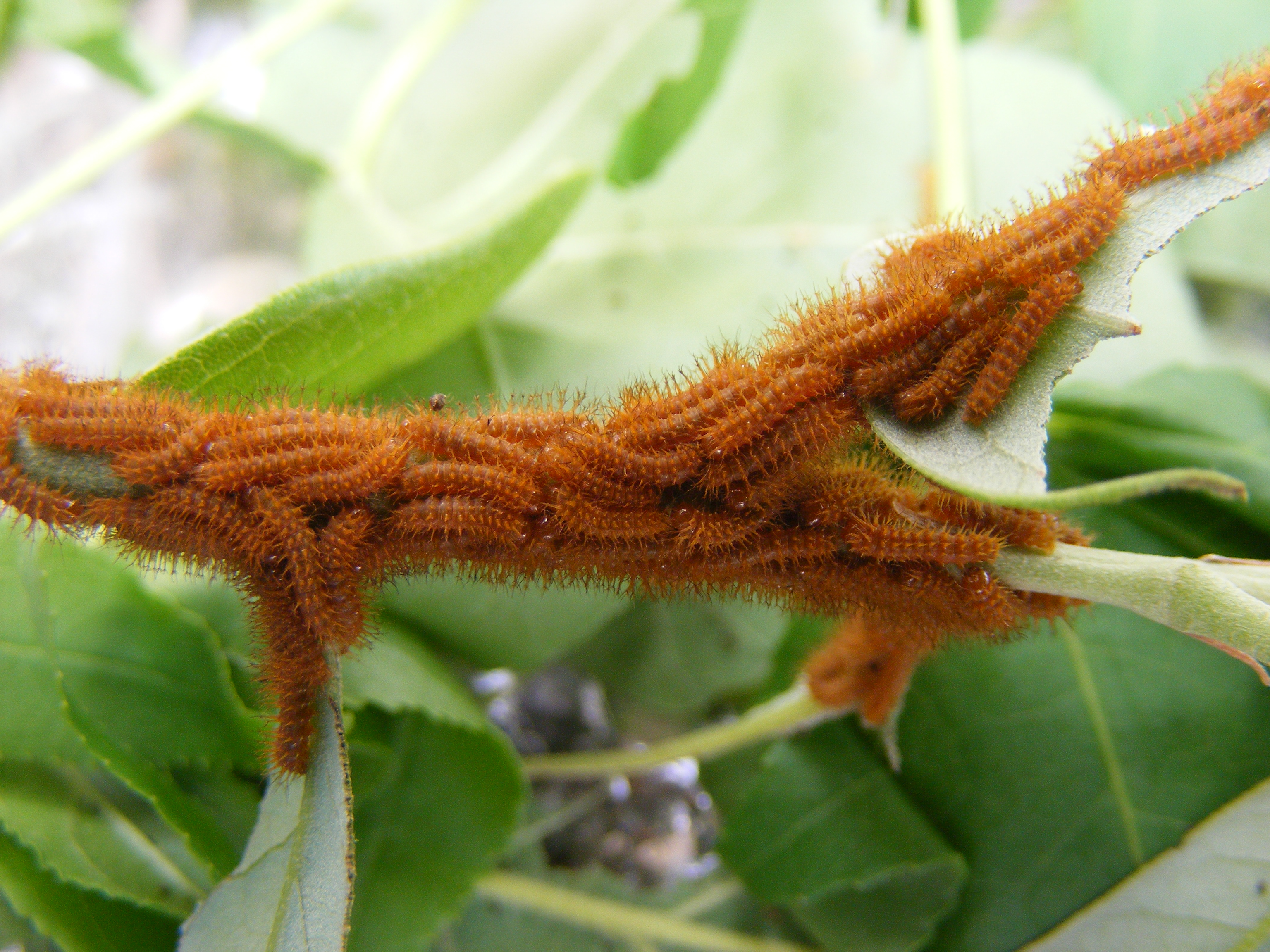 Automeris io 1st instar larvae raised on Quercus virginiana (Southern live oak) and Liquidambar styraciflua (American Sweetgum).